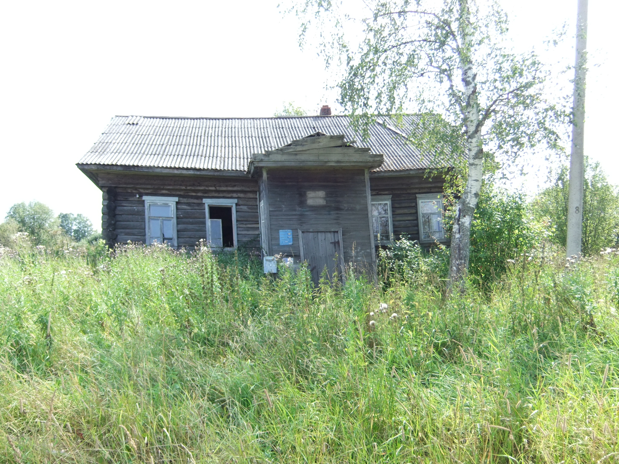 The abandoned post office / savings bank building in Menkovo village, Yaroslavl Oblast